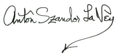 Signature of Anton Szandor LaVey